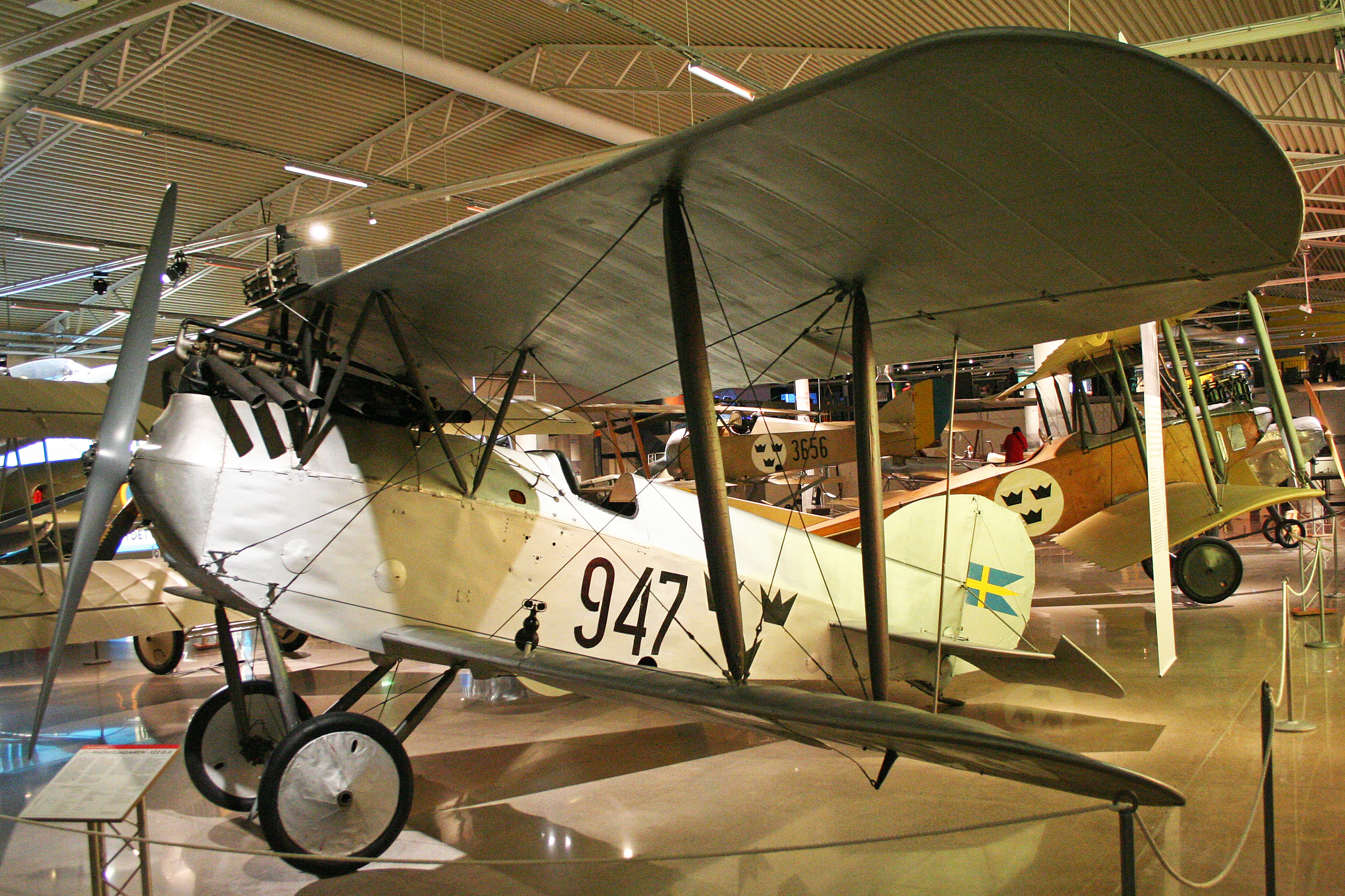 Built in 1919, it was one of 12 to see Swedish service under the designated J-1 (fighter type No1). Flyvapenmuseum, Malmen, Sweden. 04-6-2012